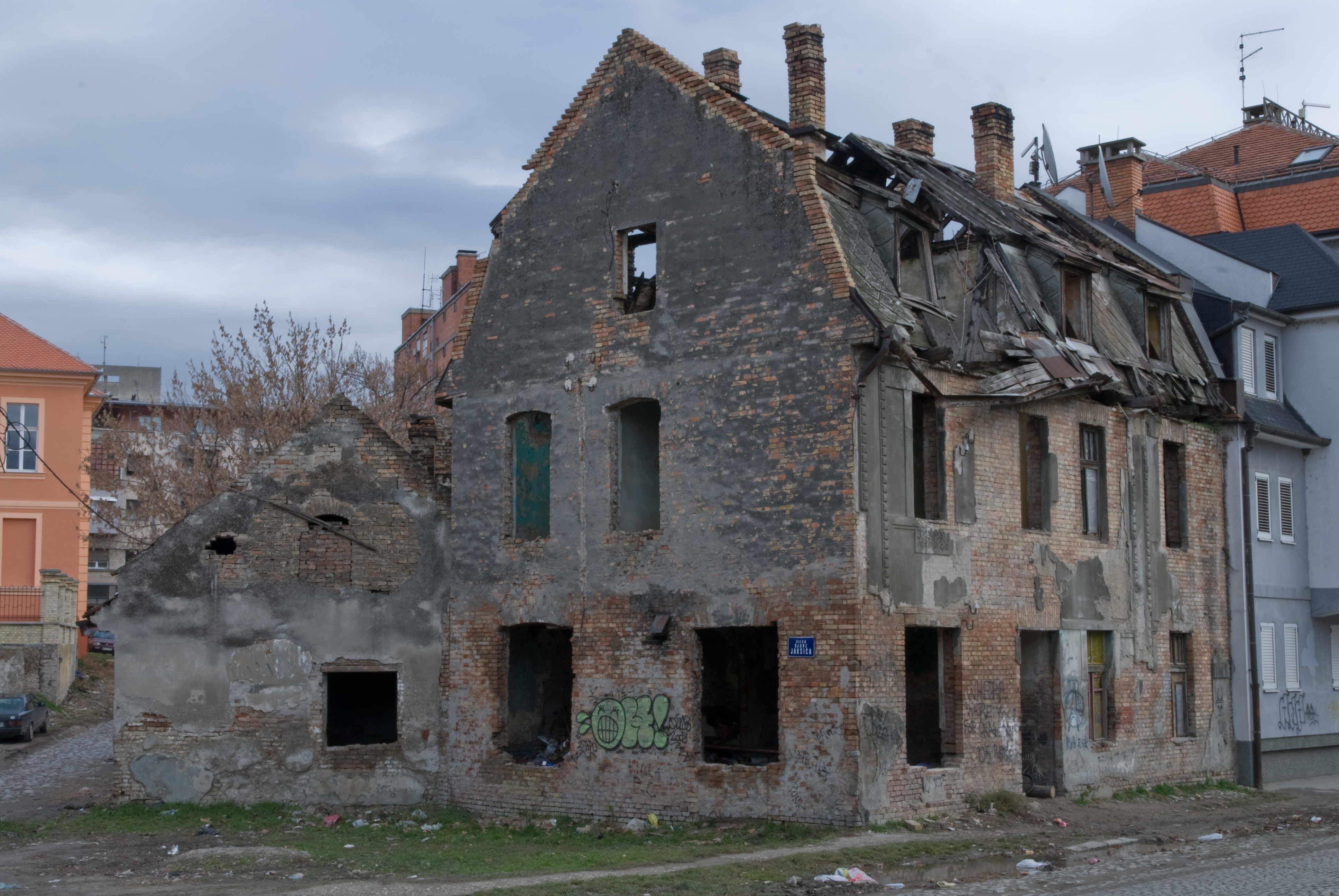 Hotel „Vojvodina" or "Štuka" in Pančevo